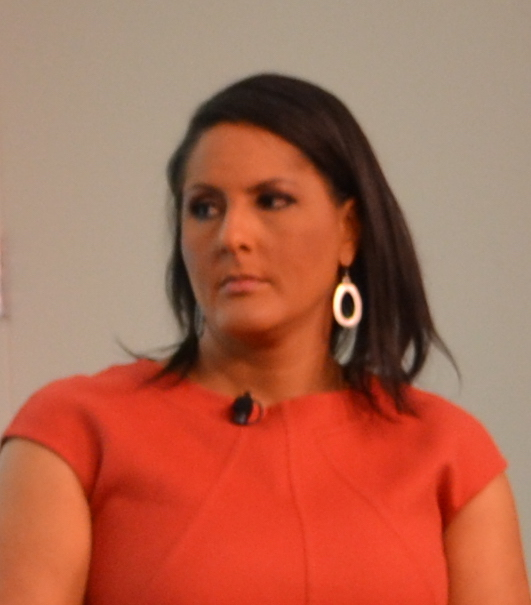 Anne-Marie Slaughter (New America), Elmira Bayrasli (Foreign Policy Interrupted), Lauren Bohn (Foreign Policy Interrupted), Ben Pauker (Foreign Policy), Karen Finney (Media Matters)